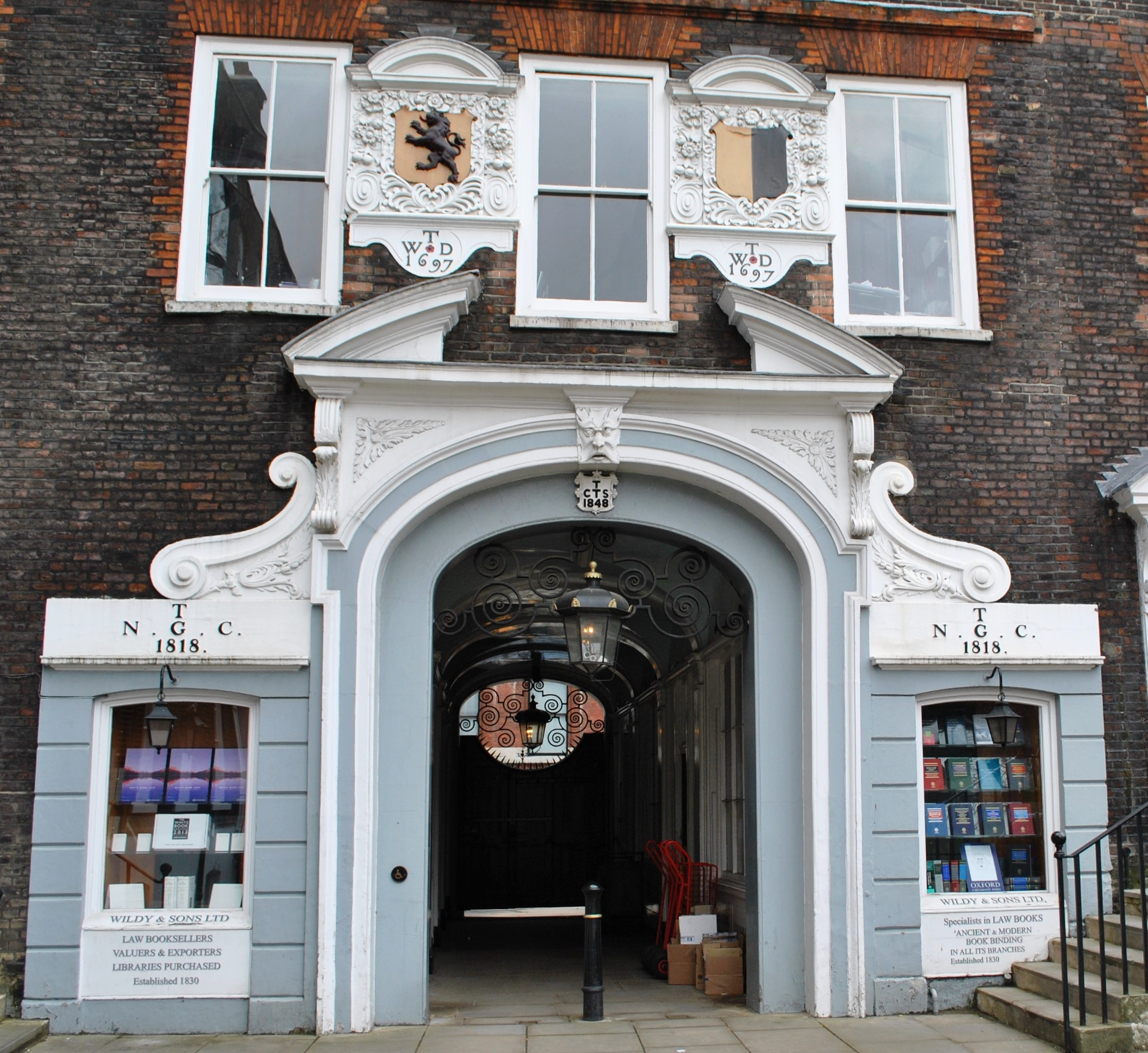 Lincoln's Inn